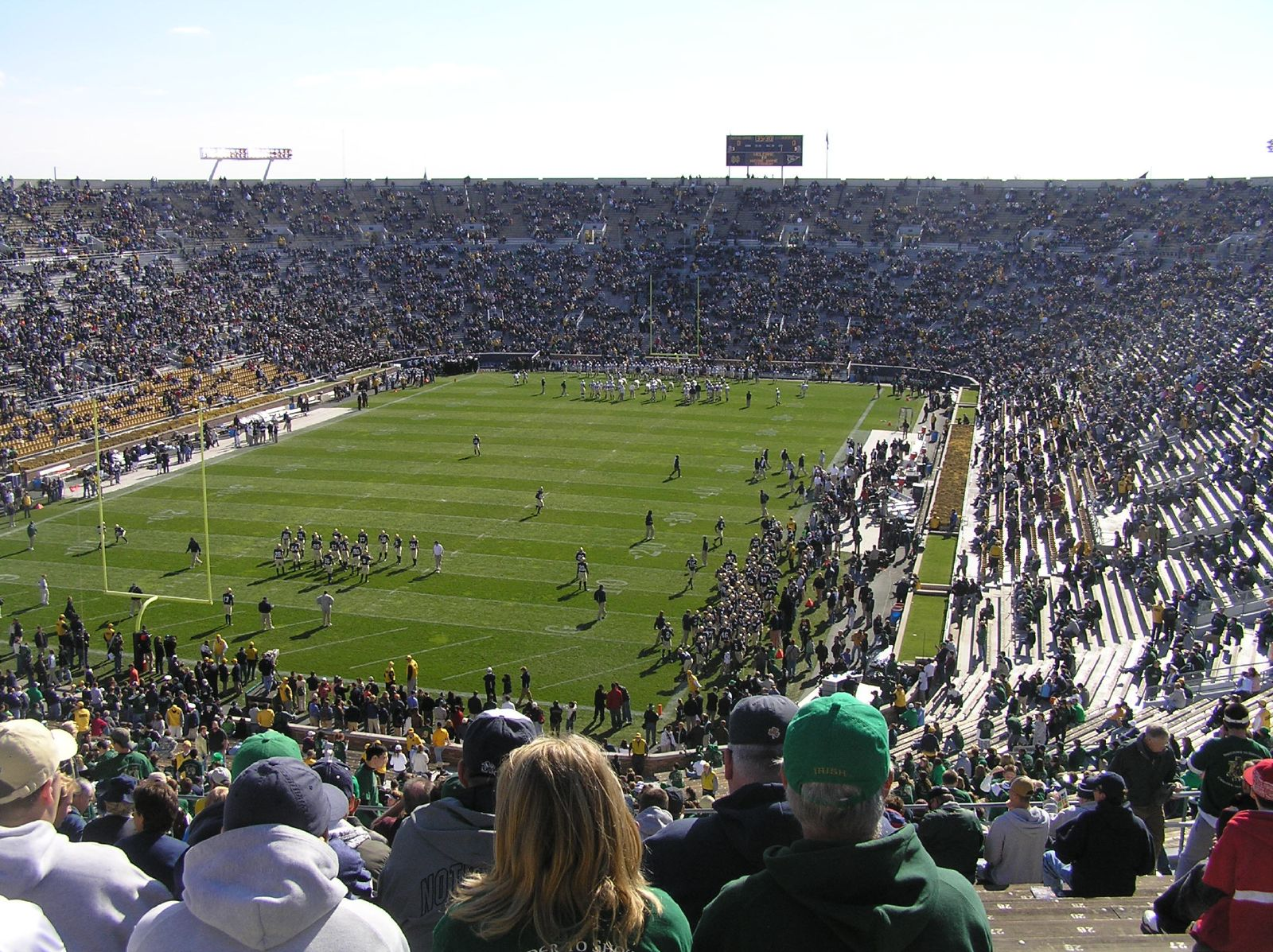 2007 Navy vs. Notre Dame football game - pregame warmups